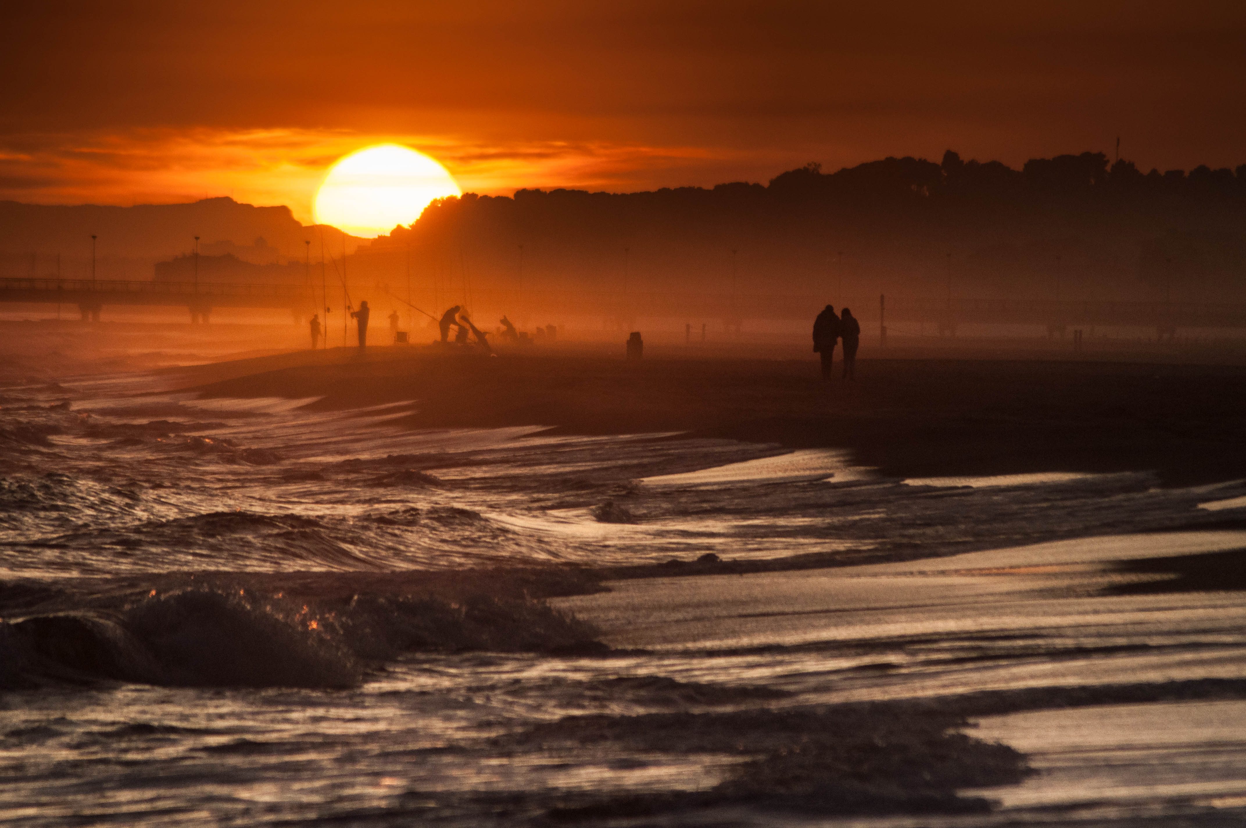 Beach of Sant Salvador at dusk in winter, El Vendrell This is a a photo of a beach in Catalonia, Spain, with id: PL-CT-17003-343